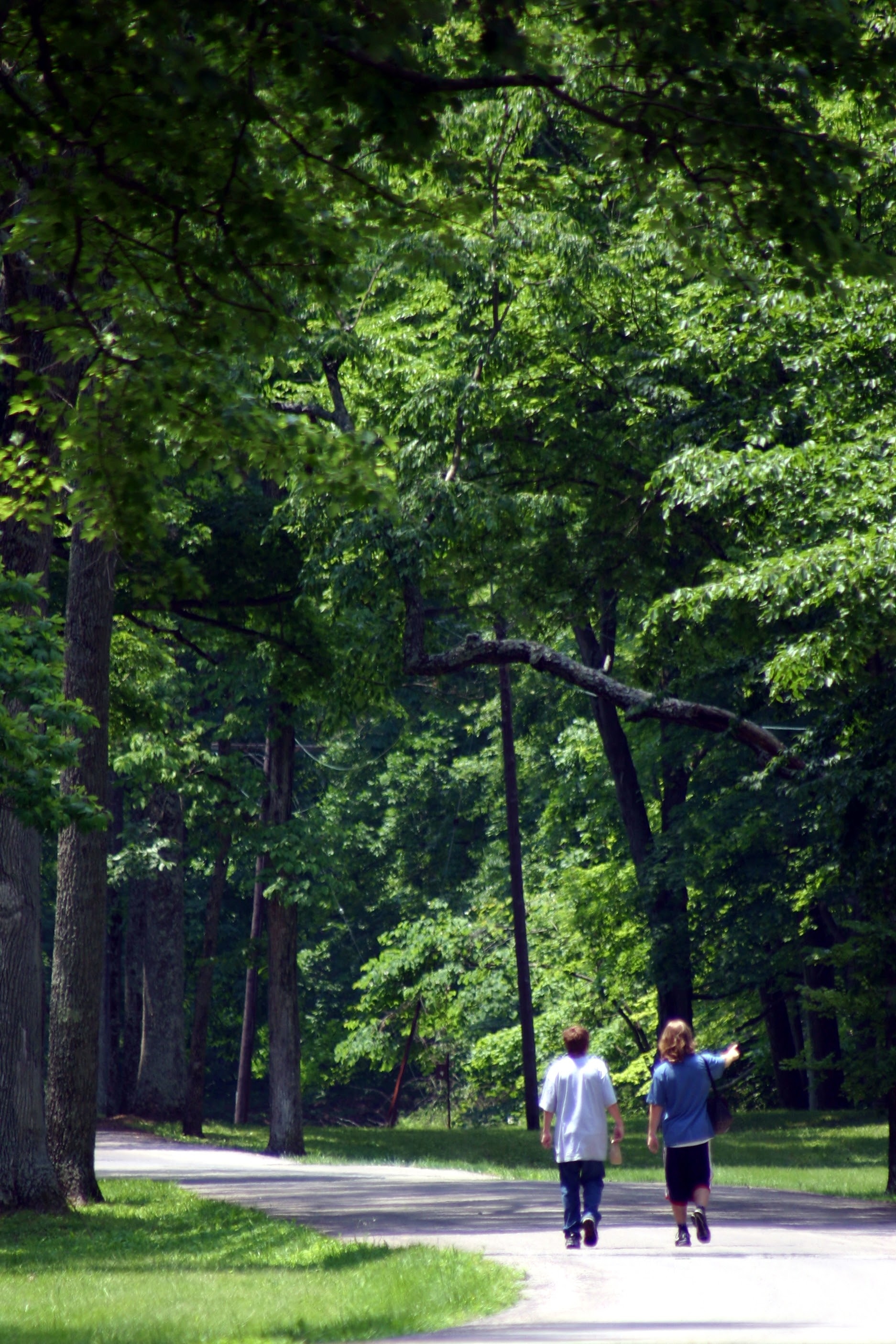 Visitors walk along the main trail among the 2000-year-old, tree-covered earthen walls at Fort Ancient National Historic Landmark in Ohio.